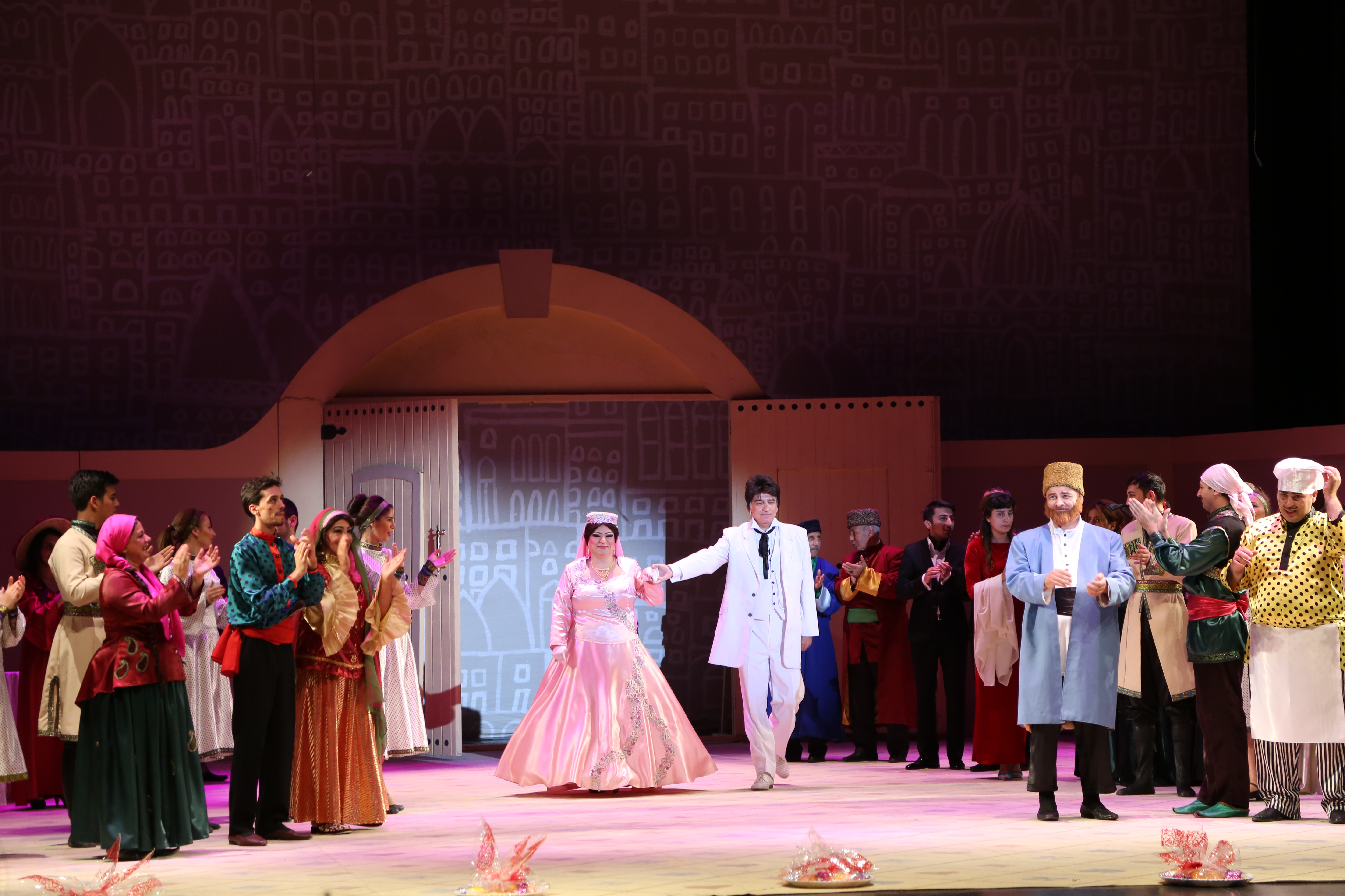 The scene from musical comedy of "Husband and Wife" by U. Hajibeyov in Azerbaijan State Musical Theatre